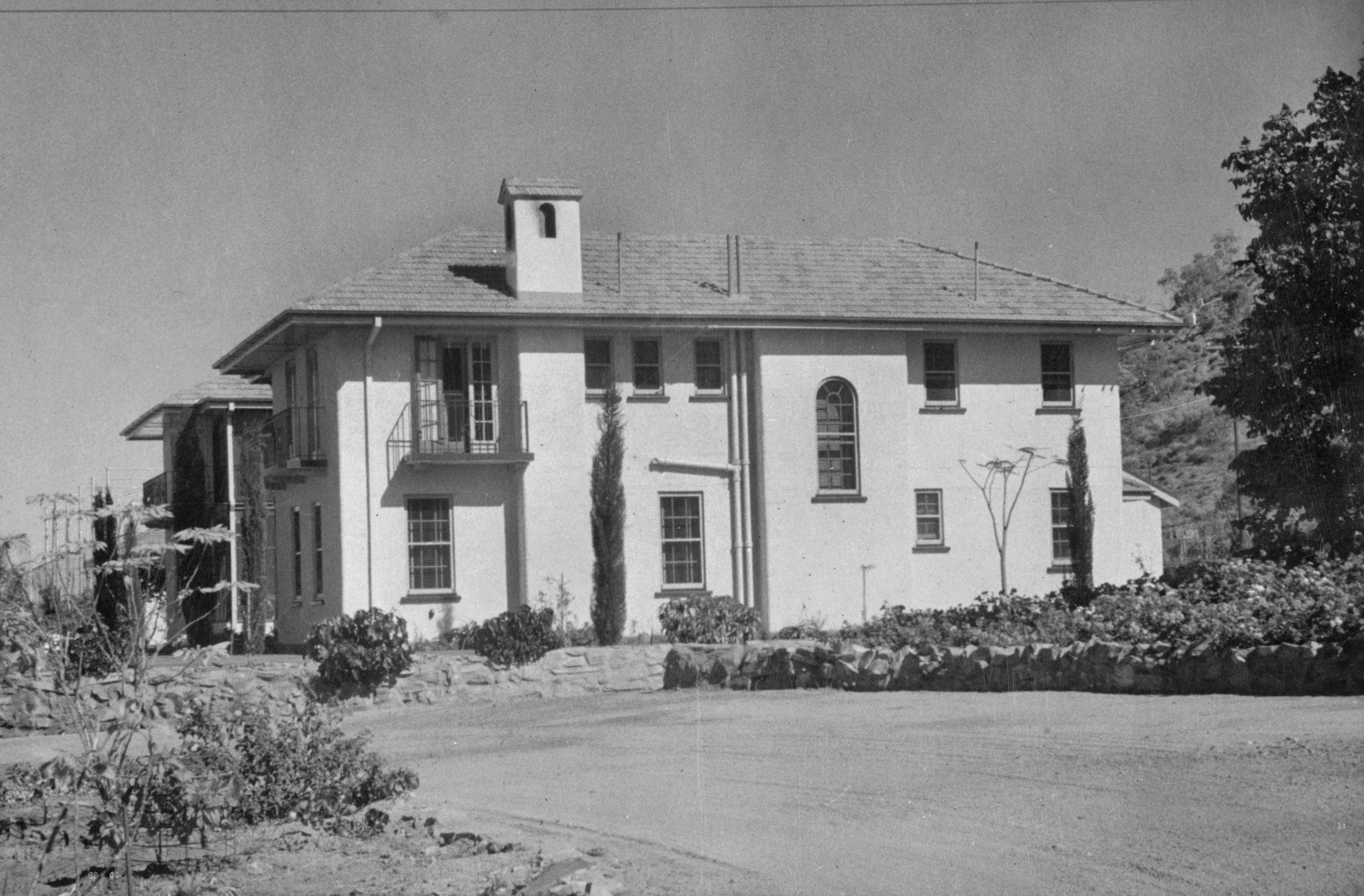 Home of George Fisher, managing director of Mount Isa Mines Ltd., Mount Isa, 1954 (now the heritage-listed Casa Grande)